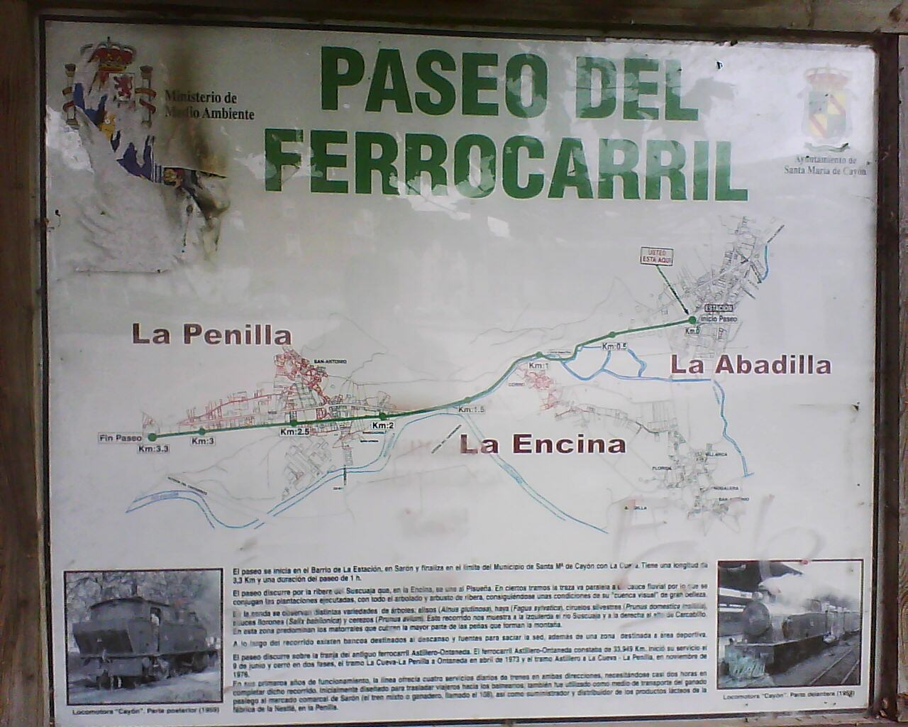 Saron Railway Walkway - Indication